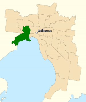 This image incorporates data that is: © Commonwealth of Australia (Australian Electoral Commission) 2009 Division of Gellibrand 2010